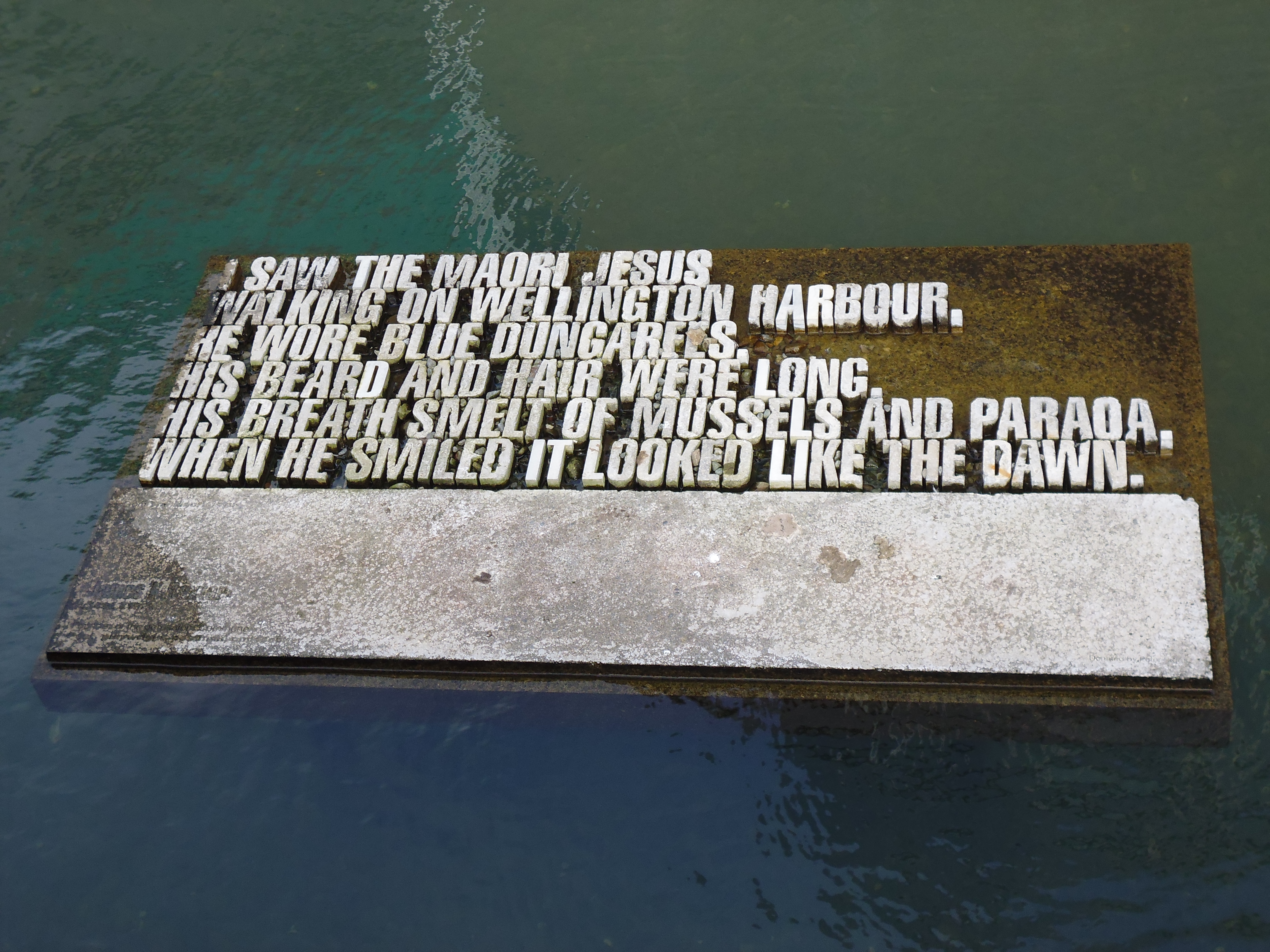 A casting in concrete of "The Māori Jesus" by James K Baxter, on display outside Te Papa in Wellington, New Zealand.